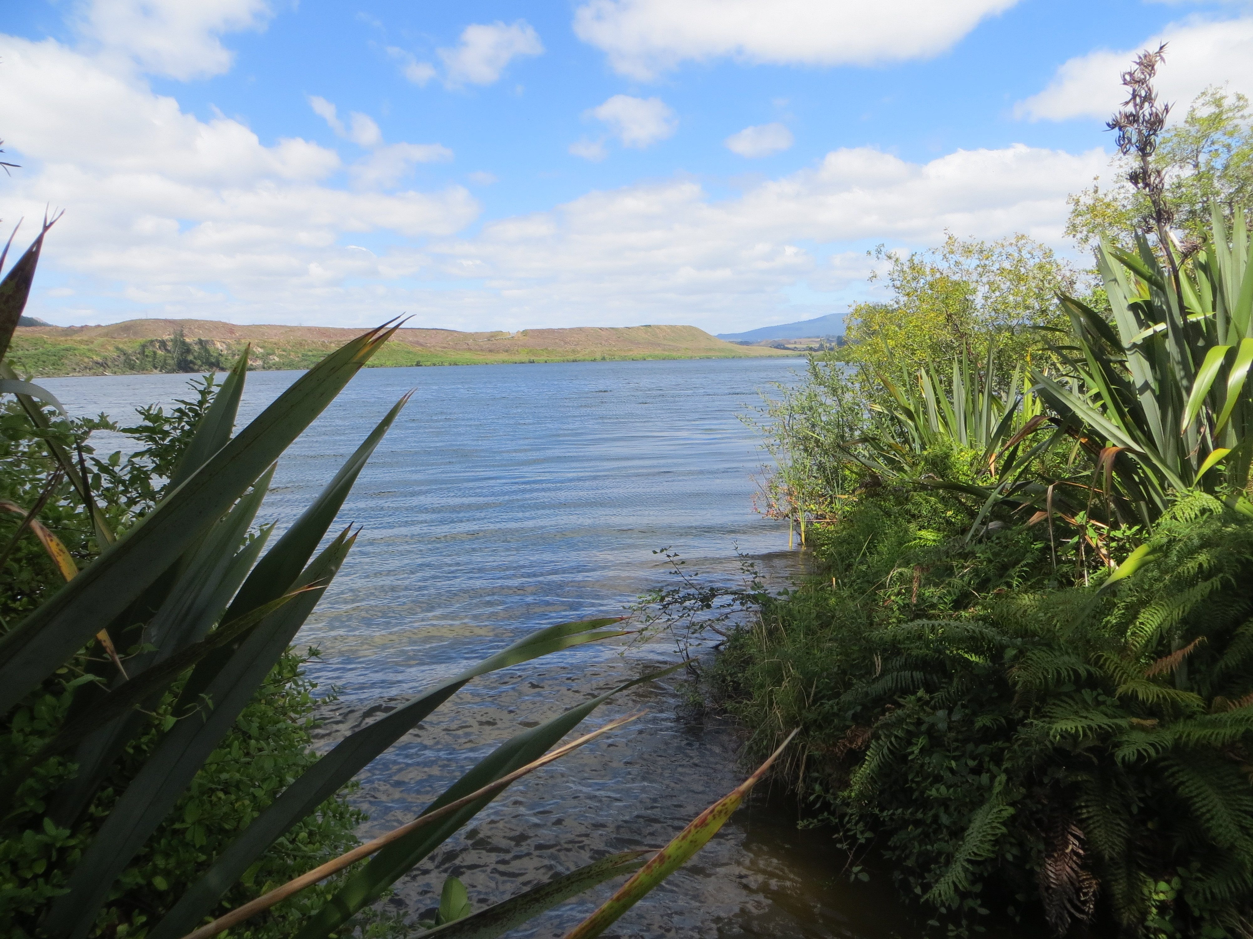 view of lake